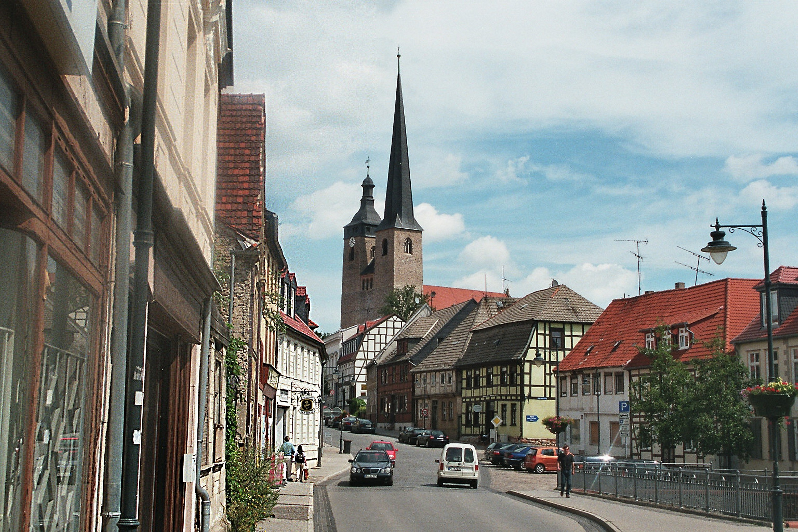 Burg (bei Magdeburg), Breiter Weg, view to the church of Our Lady